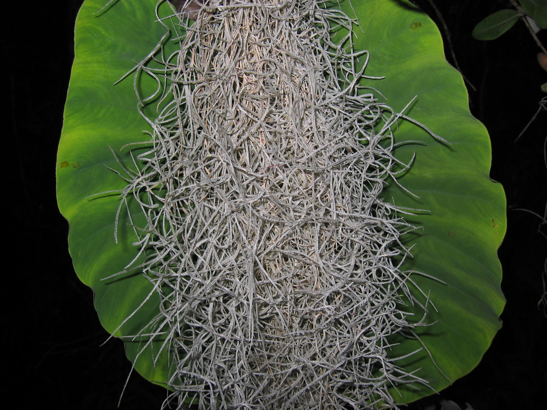 Pele's Hair. This is a spanish moss and should not be confused with the geological term for volcanic glass threads or fibers formed when small particles of molten material are thrown into the air and spun out by the wind into long hair-like strands.